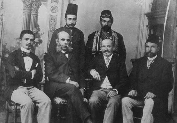 Personnel of the Ottoman bank branch based in Konya, 1889 (Cropped image)